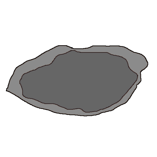 Monazite core-rim zoning. Intensity of colour represents concentration of certain element. Edited after Williams, M. L., Jercinovic, M. J., & Hetherington, C. J. (2007). Microprobe monazite geochronology: understanding geologic processes by integrating composition and chronology. Annual Review of Earth and Planetary Sciences, 35(1), 137.